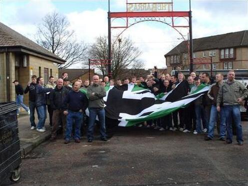 Groups photo at the Barras